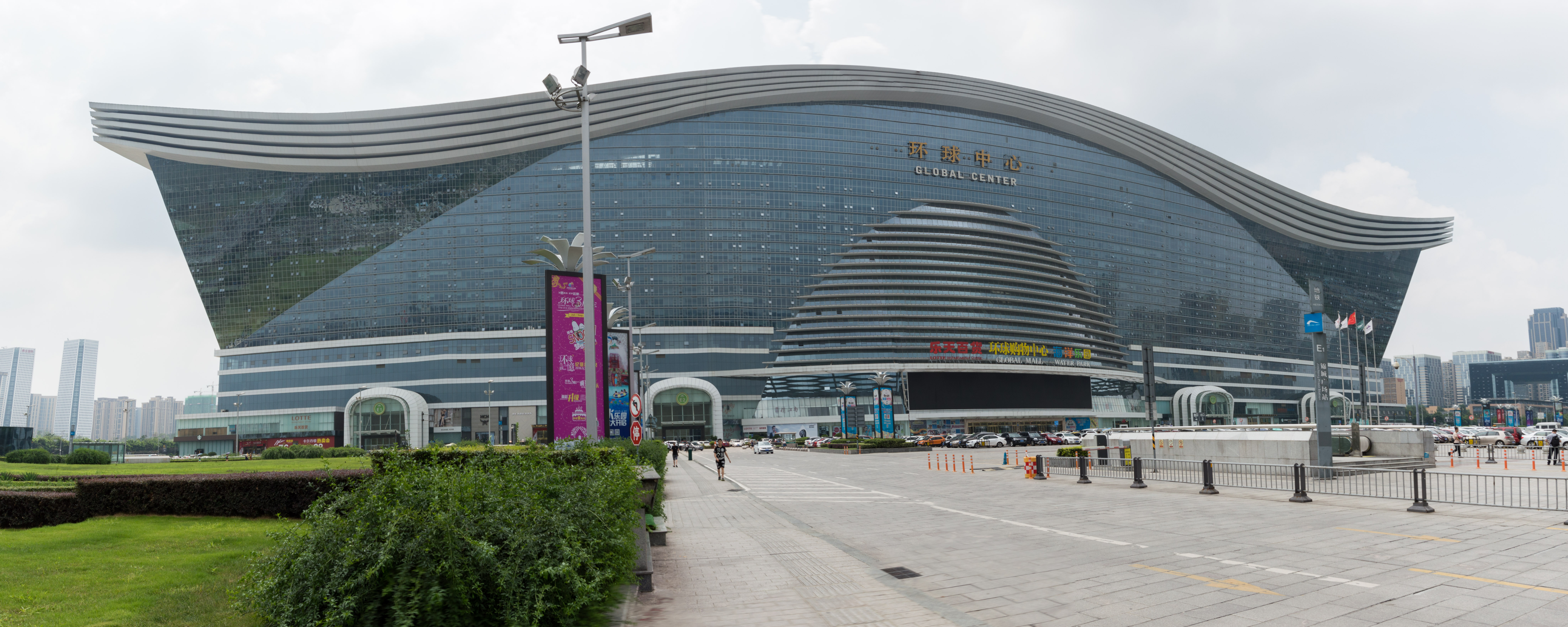 The eastern facade of the New Century Global Mall